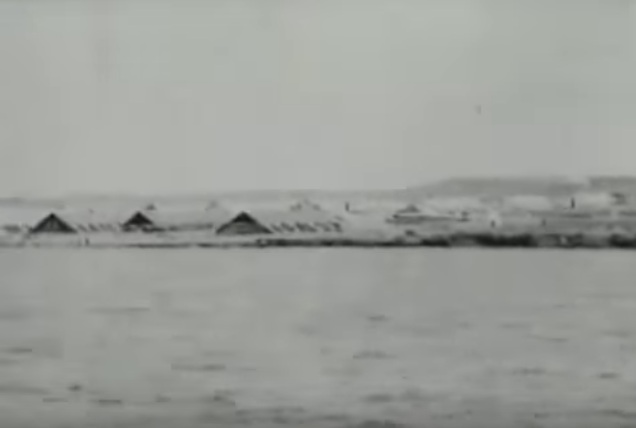 Prisoner-of-war camp in Nargen island